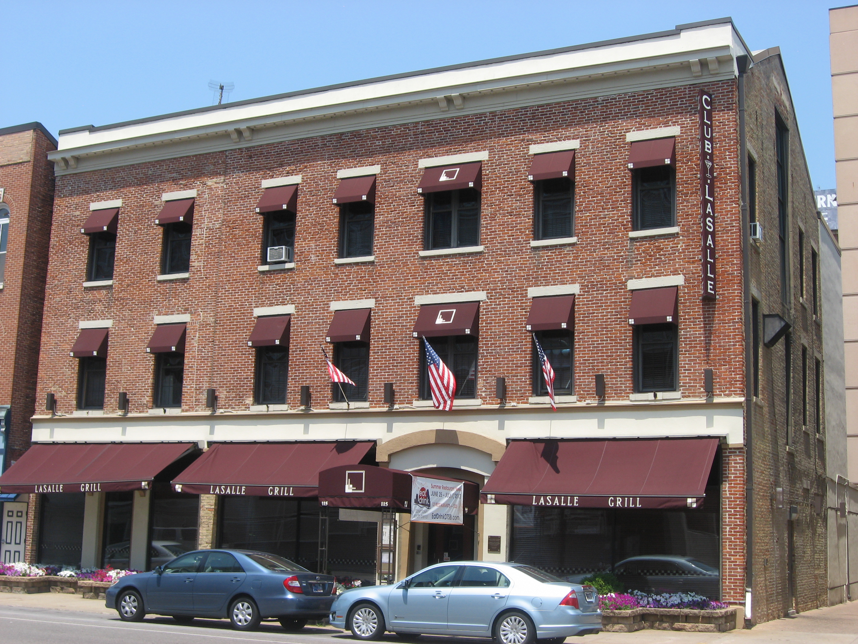 Front and eastern side of the Second St. Joseph Hotel, located at 117-119 W. Colfax Avenue in South Bend, Indiana, United States. Built in 1868, it is listed on the National Register of Historic Places.